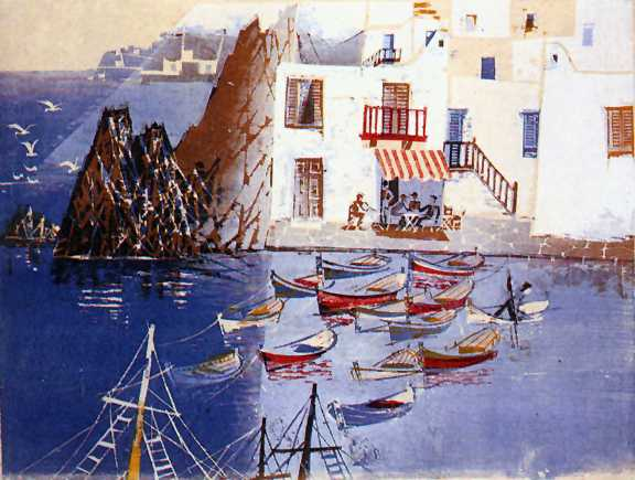 Grammatikopoulos, Aegean see, image from the Museum of Contemporary Art, Florina, West Macedonia, Greece